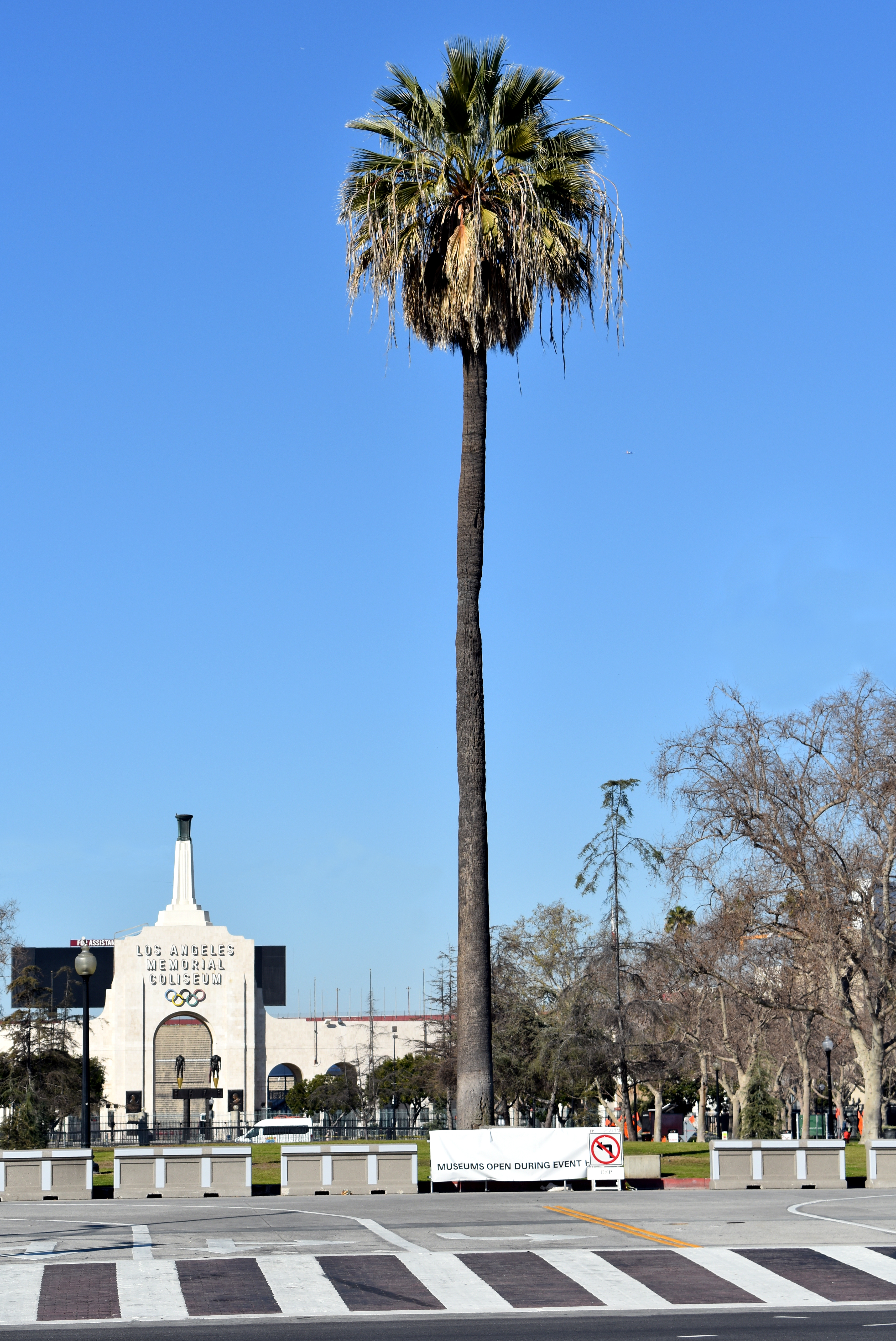 historic palm tree, Exposition Park, Los Angeles, Coliseum peristyle in background; tree was moved here in 1914 from the Arcade Depot (Southern Pacific Railroad) at Fifth and Alameda Streets, where it had stood at the entrance for 25 years